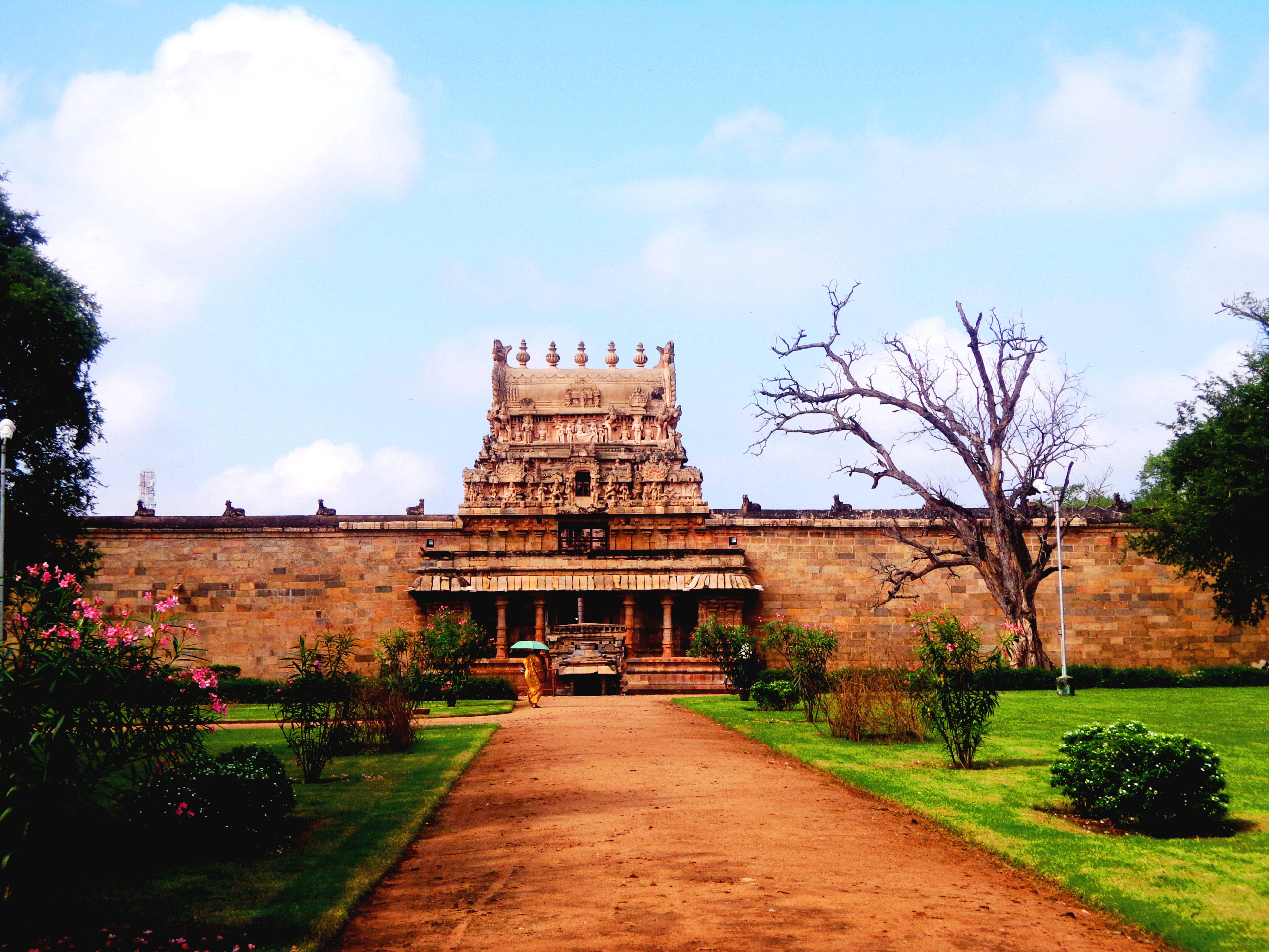 It is one of the great living chola temples along with gangai konda cholapuran and brihadisvara temple. It is inscribed on unesco world heritage list